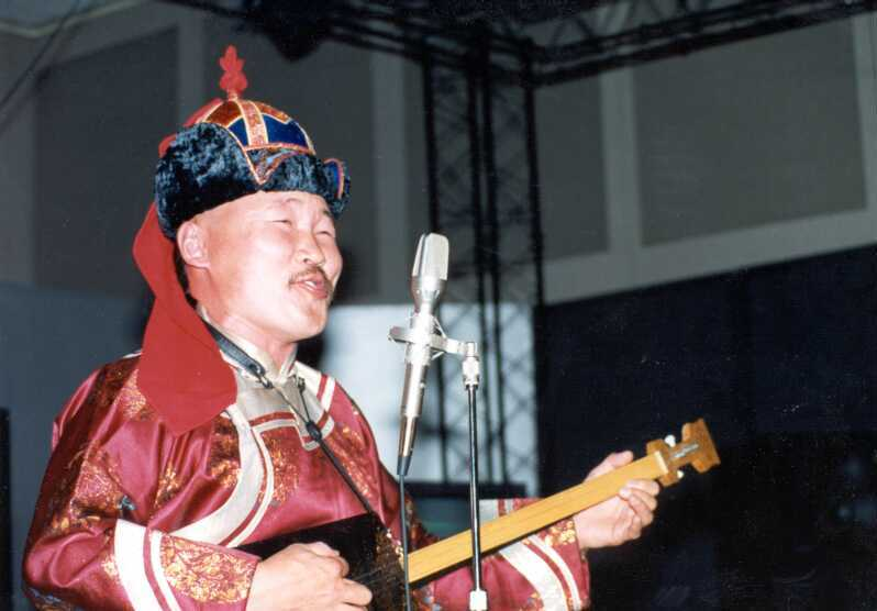 Kongar-ool Ondar, Tuvan throat singer. Taken in New York City at the Convention Center at the AT&T booth. 1993 by Bill Loewy